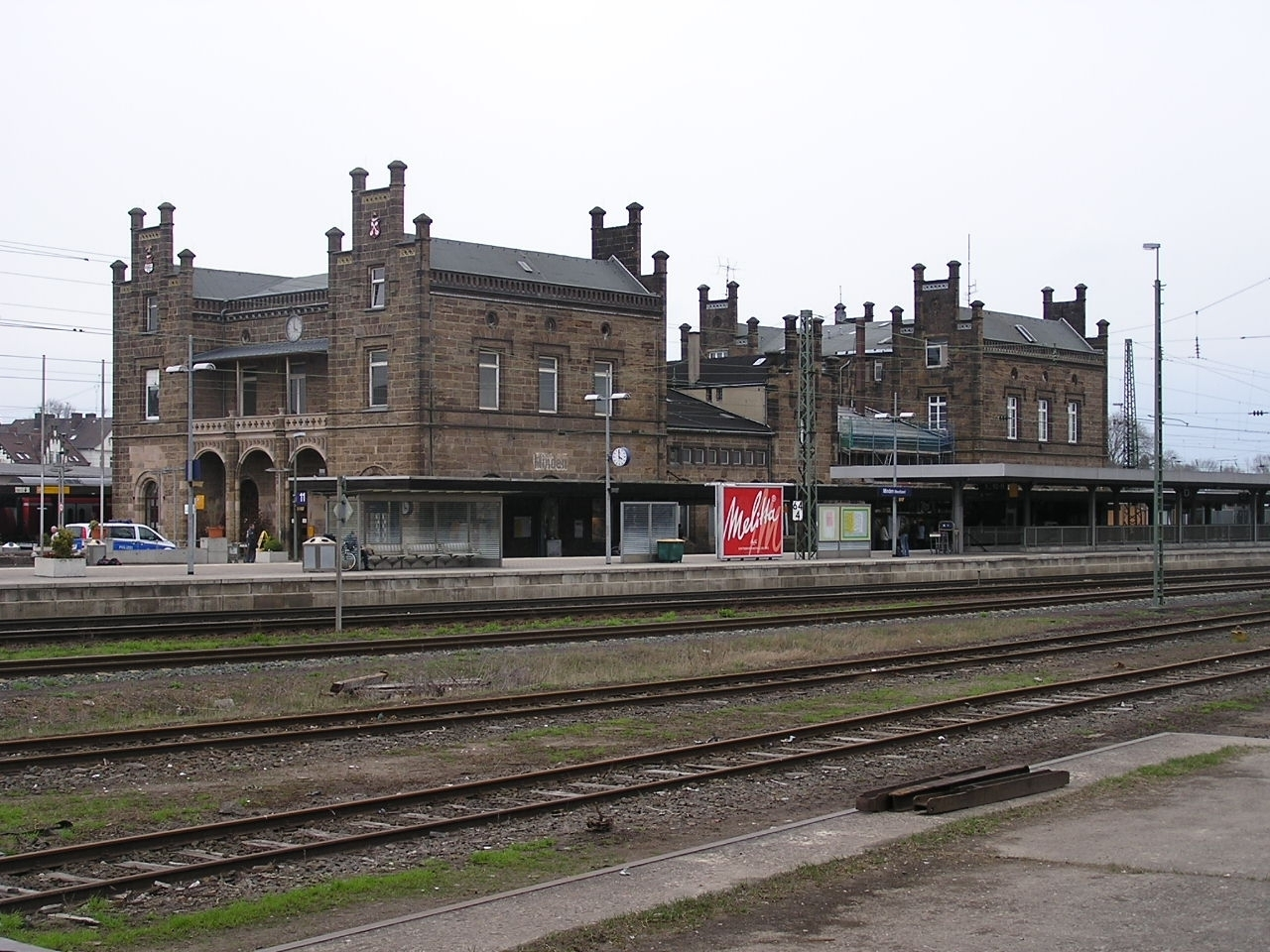 Minden railway station, Minden (Westf), Germany.